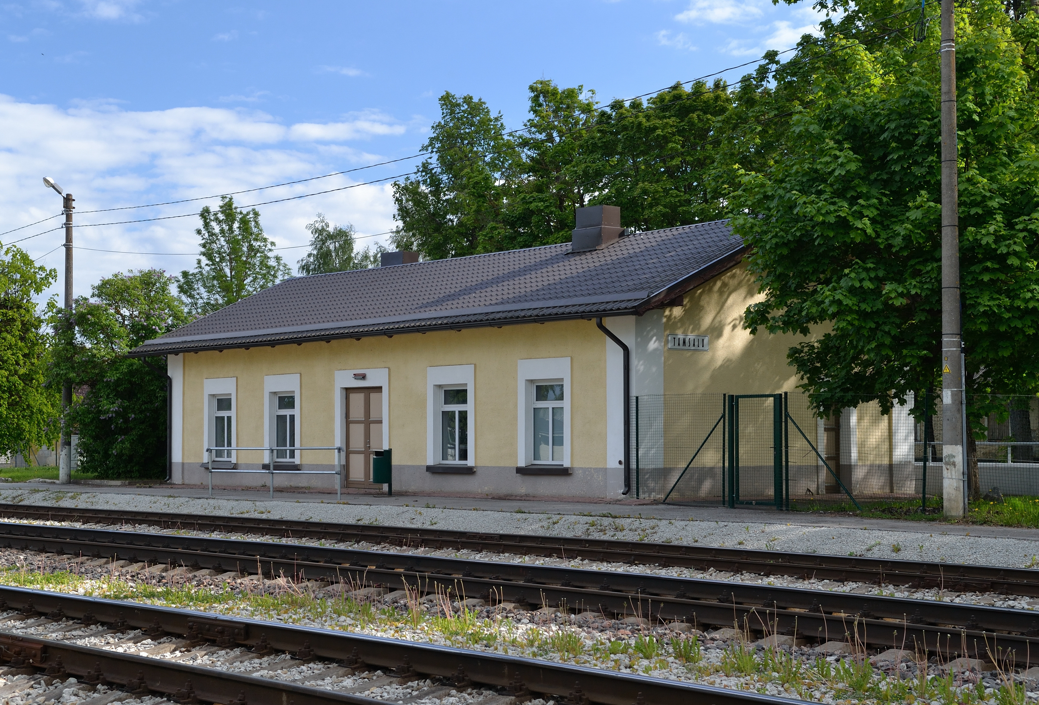 Tamsalu station main bulding. Built in 1877, later reconstructed.